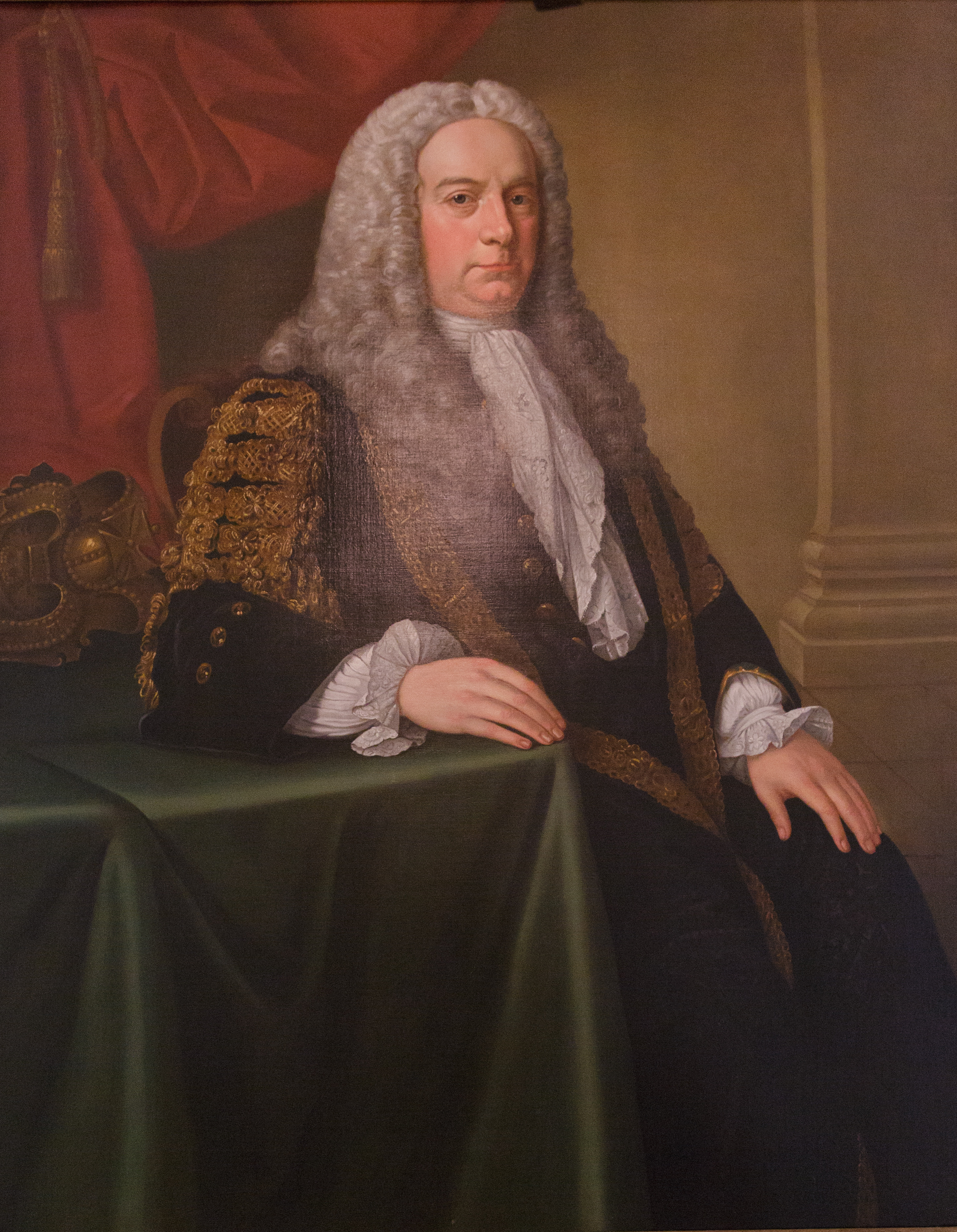 Stephen Slaughter, Henry Boyle, 1st Earl of Shannon, mid-18th century, in Ballyfin Demesne